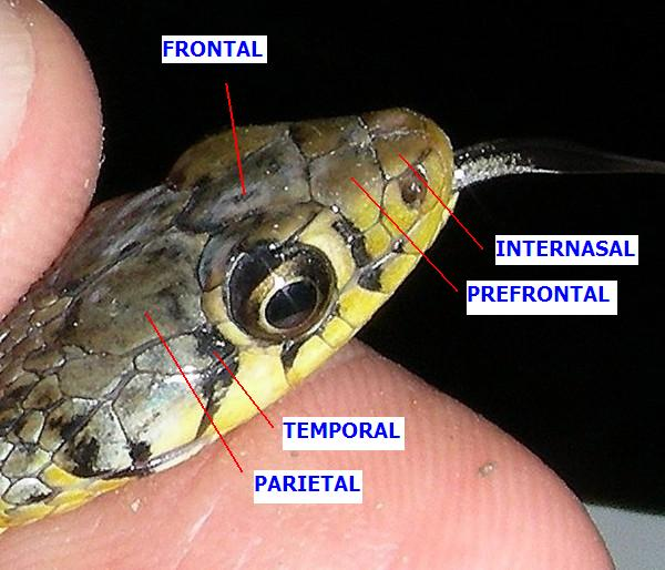 Scales on a snake's head. (Photo 2). Originsl photo is of Buff-striped Keelback Amphiesma stolata Family Colubridae, Serpentes.